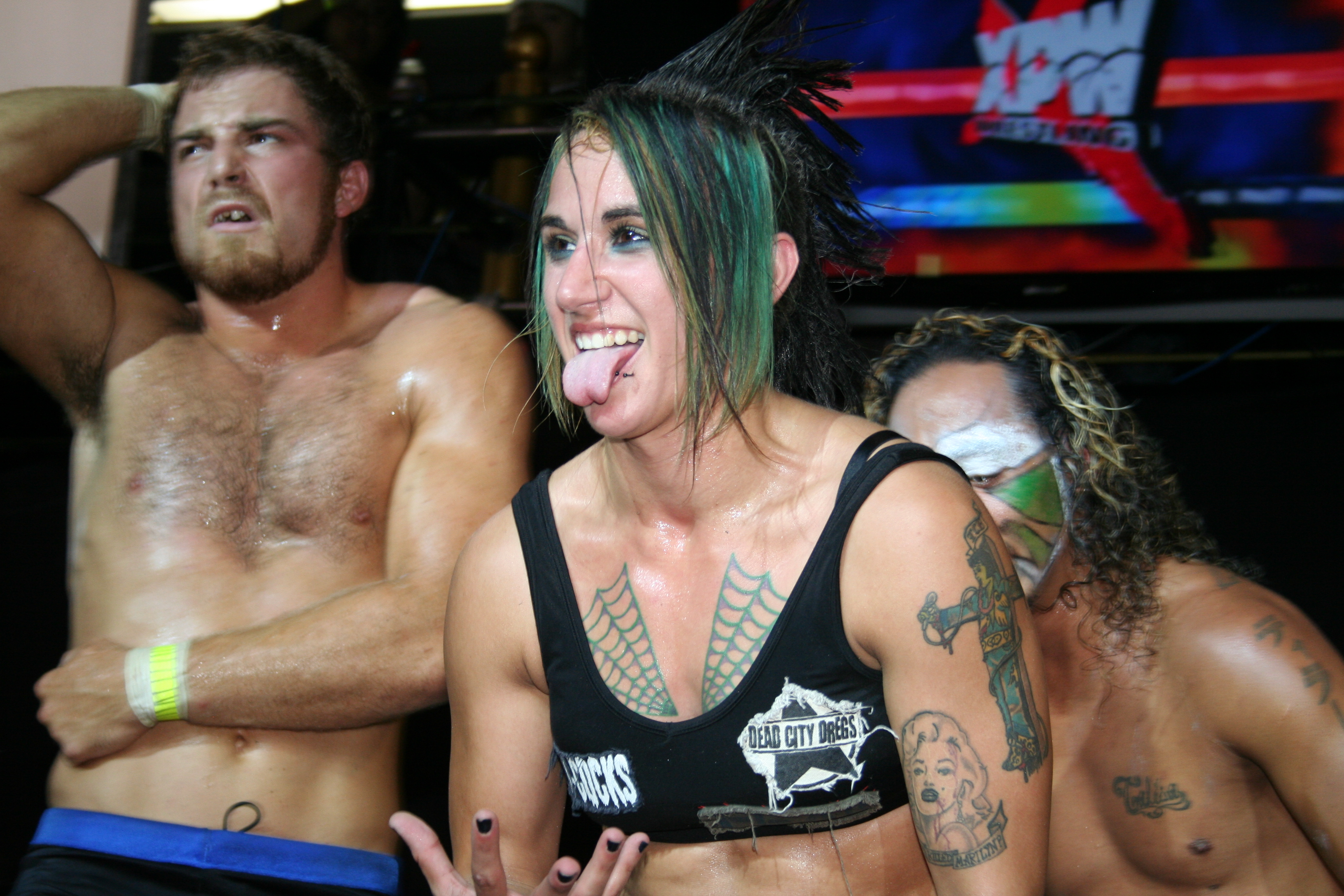 Professional wrestler Christina Von Eerie at an Xtreme Pro Wrestling event